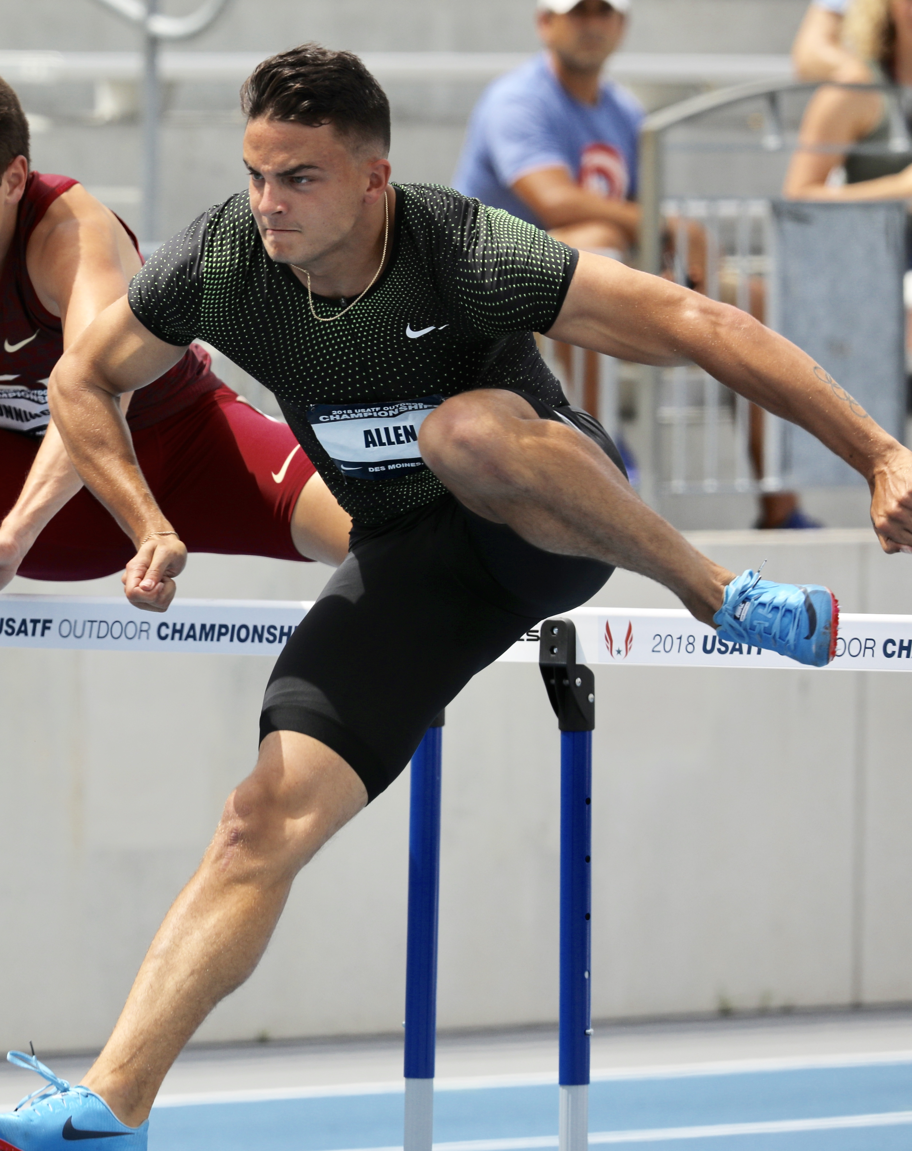 2018 USA Outdoor Track and Field Championships